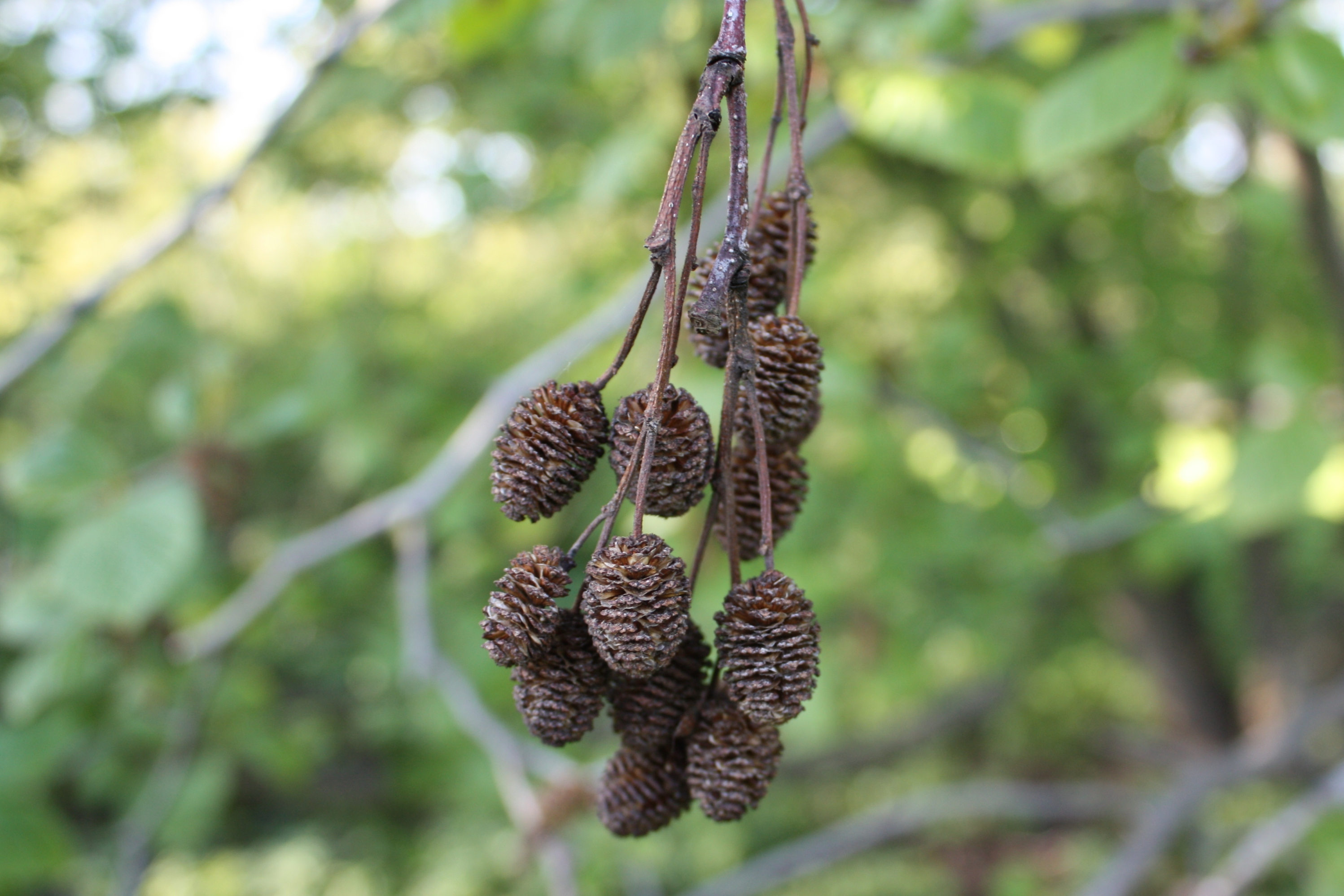 Cones of Alnus mandshurica in Meilahti Arboretum in Helsinki, Finland